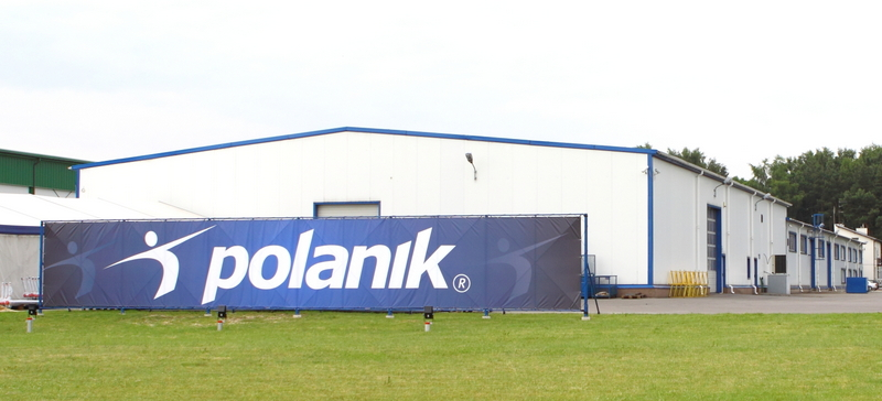 POLANIK headquarters